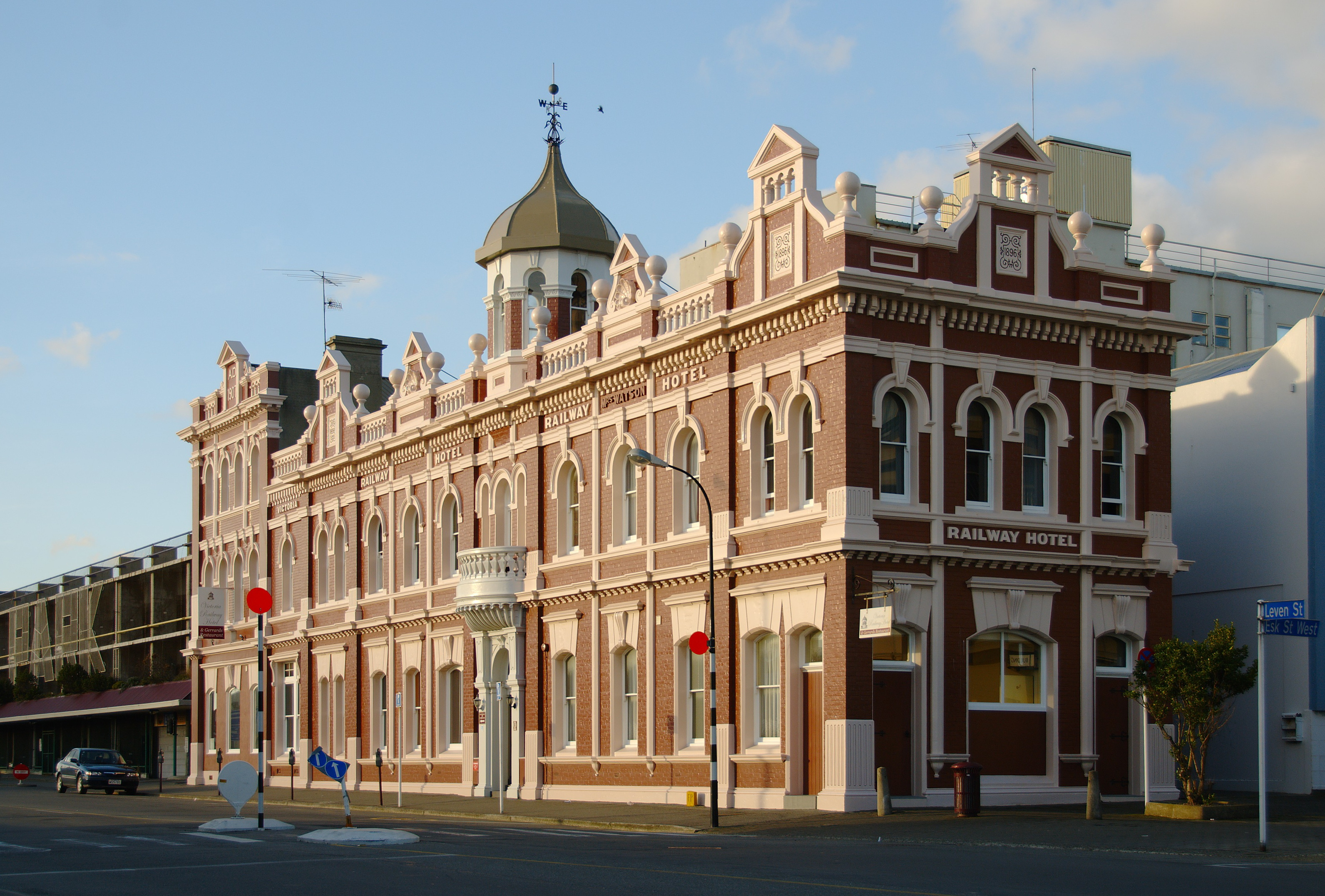 Gerrard's Private Railway Hotel, Invercargill, South Island, New Zealand, which is a Category I Historic Place, Register number 2506.